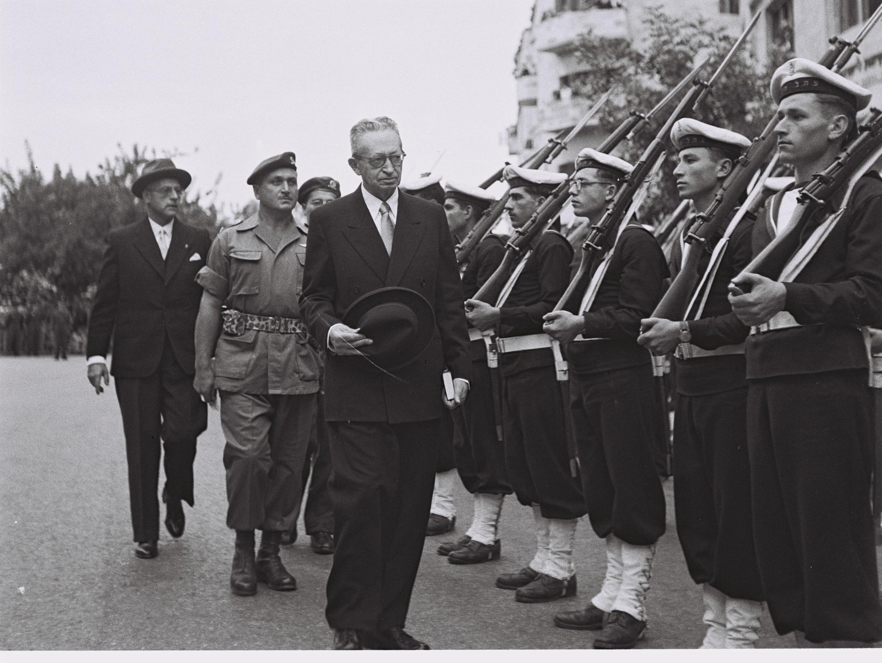 Itzhak Ben-Zvi reviewing a guard of honor after his inauguration as president